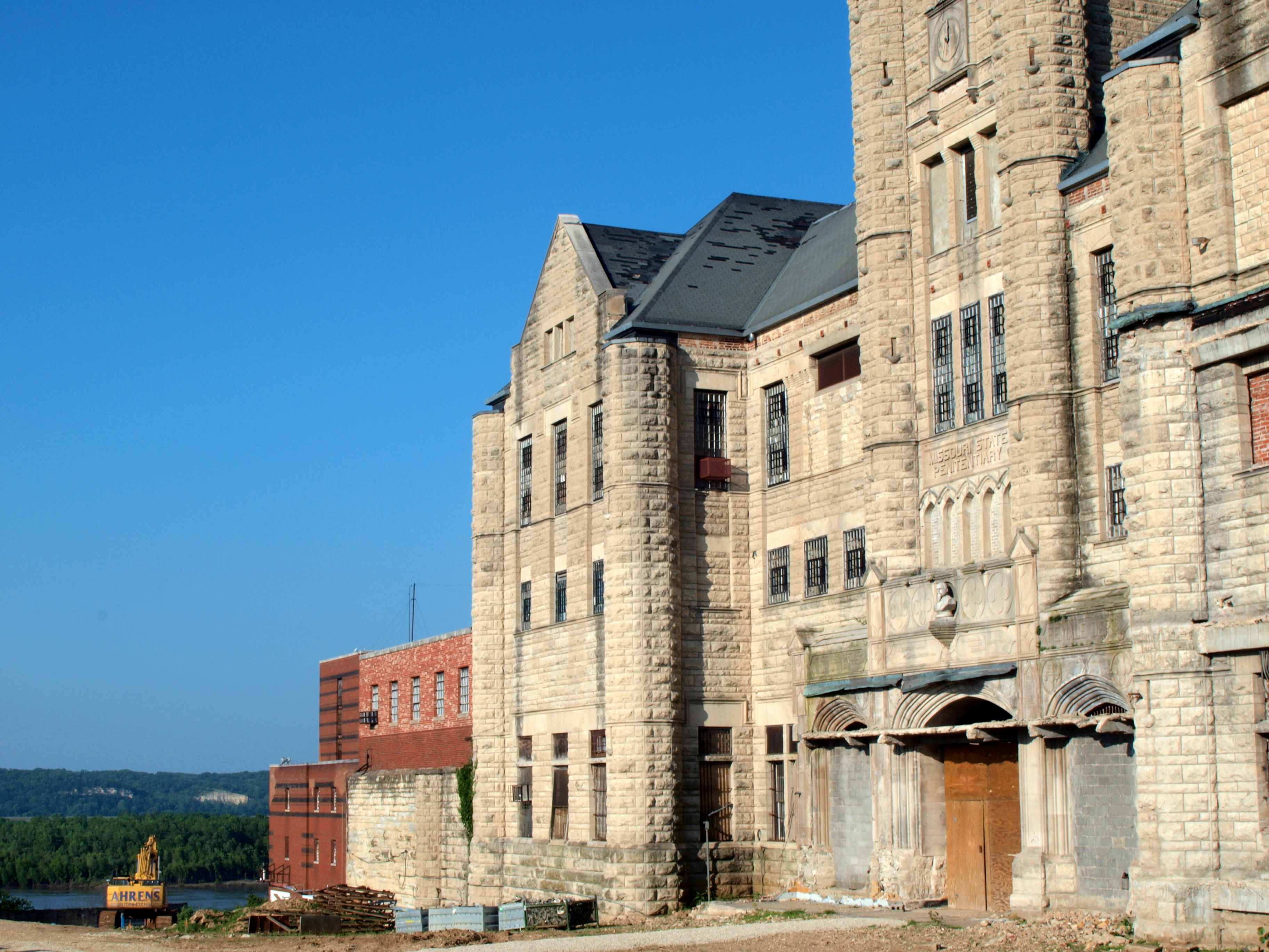 The prison.